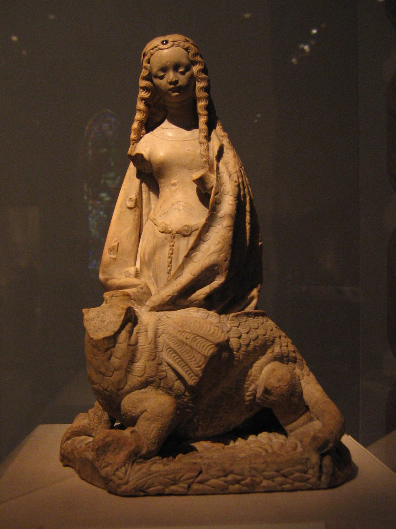 Saint Margaret, ca. 1475. French (Toulouse). Alabaster with traces of gilding in the hair. Metropolitan Museum of Art, New York City.